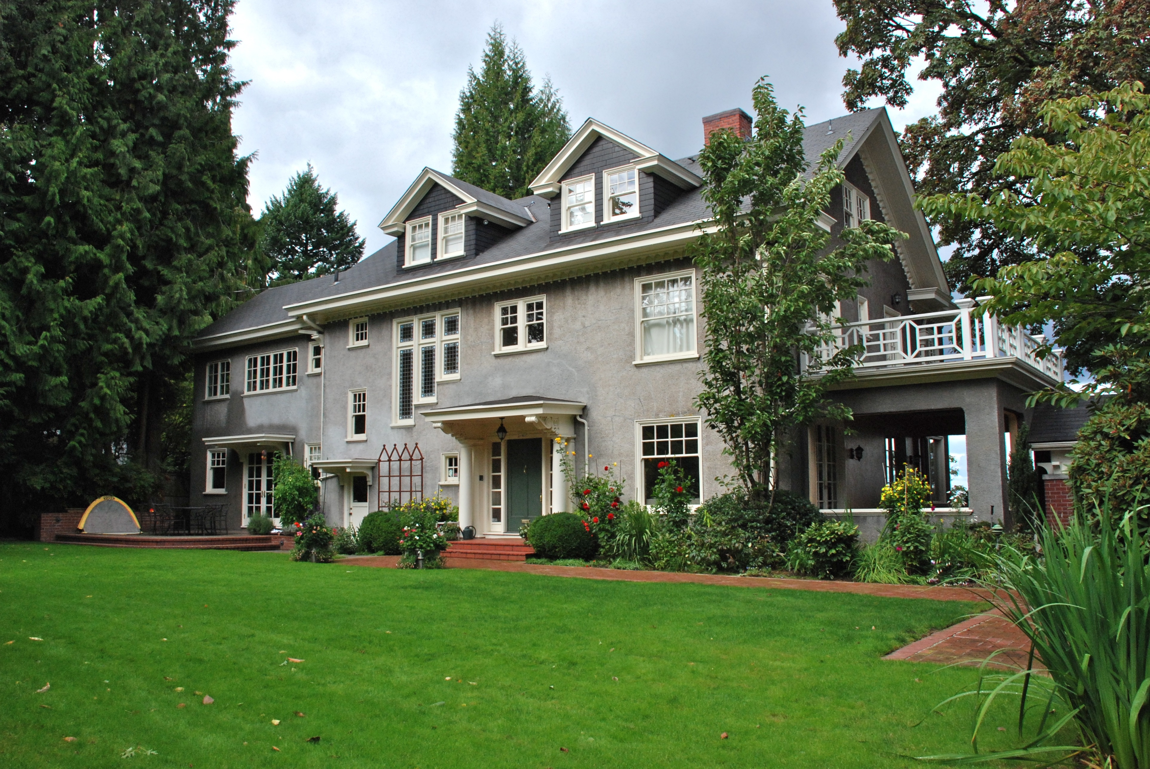 The Daniel J. Malarkey House, in southwest Portland, Oregon, is listed on the U.S. National Register of Historic Places.